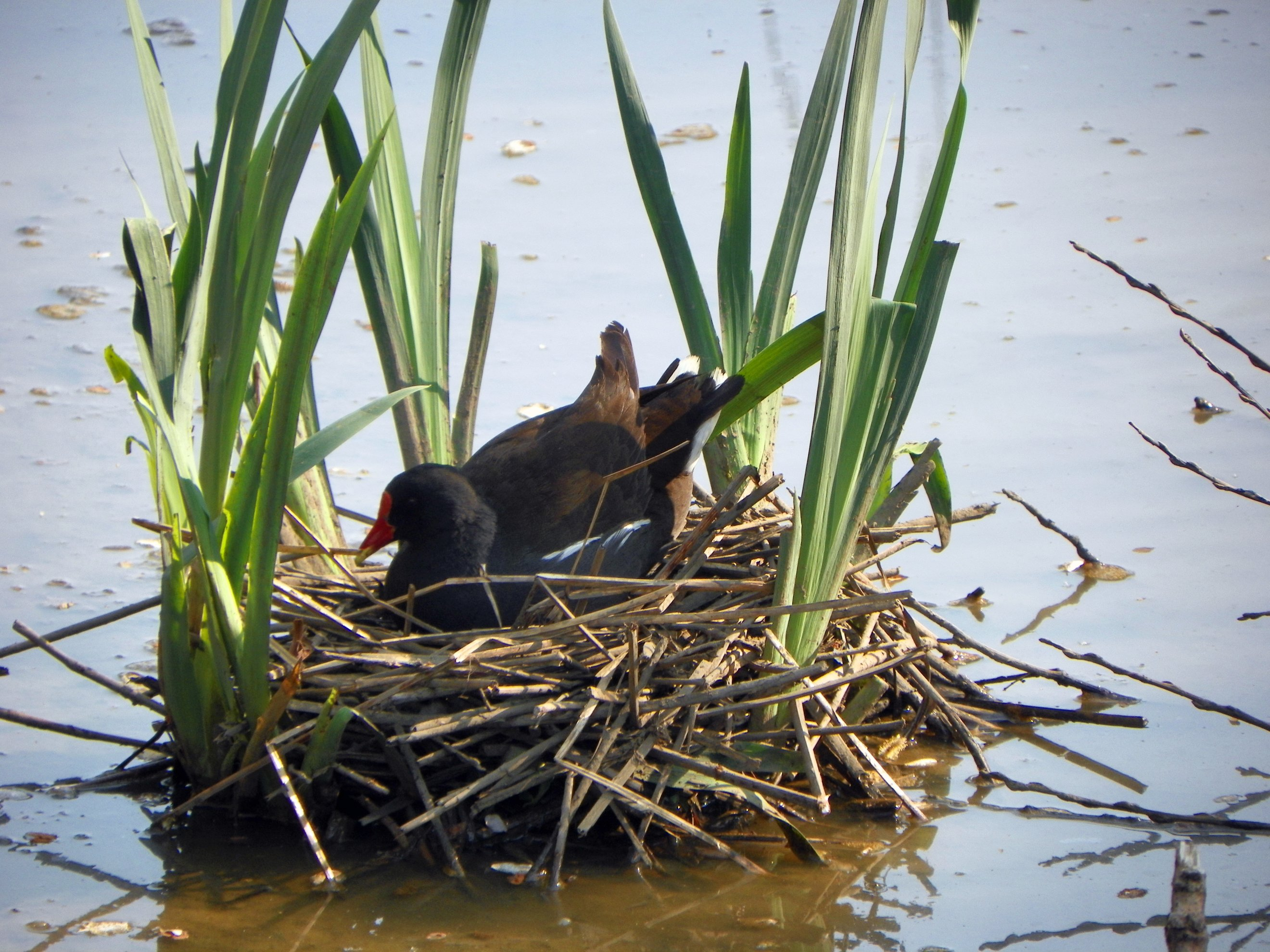 A Common Moorhen on its nest at Fairlands Valley Park, Stevenage, England.